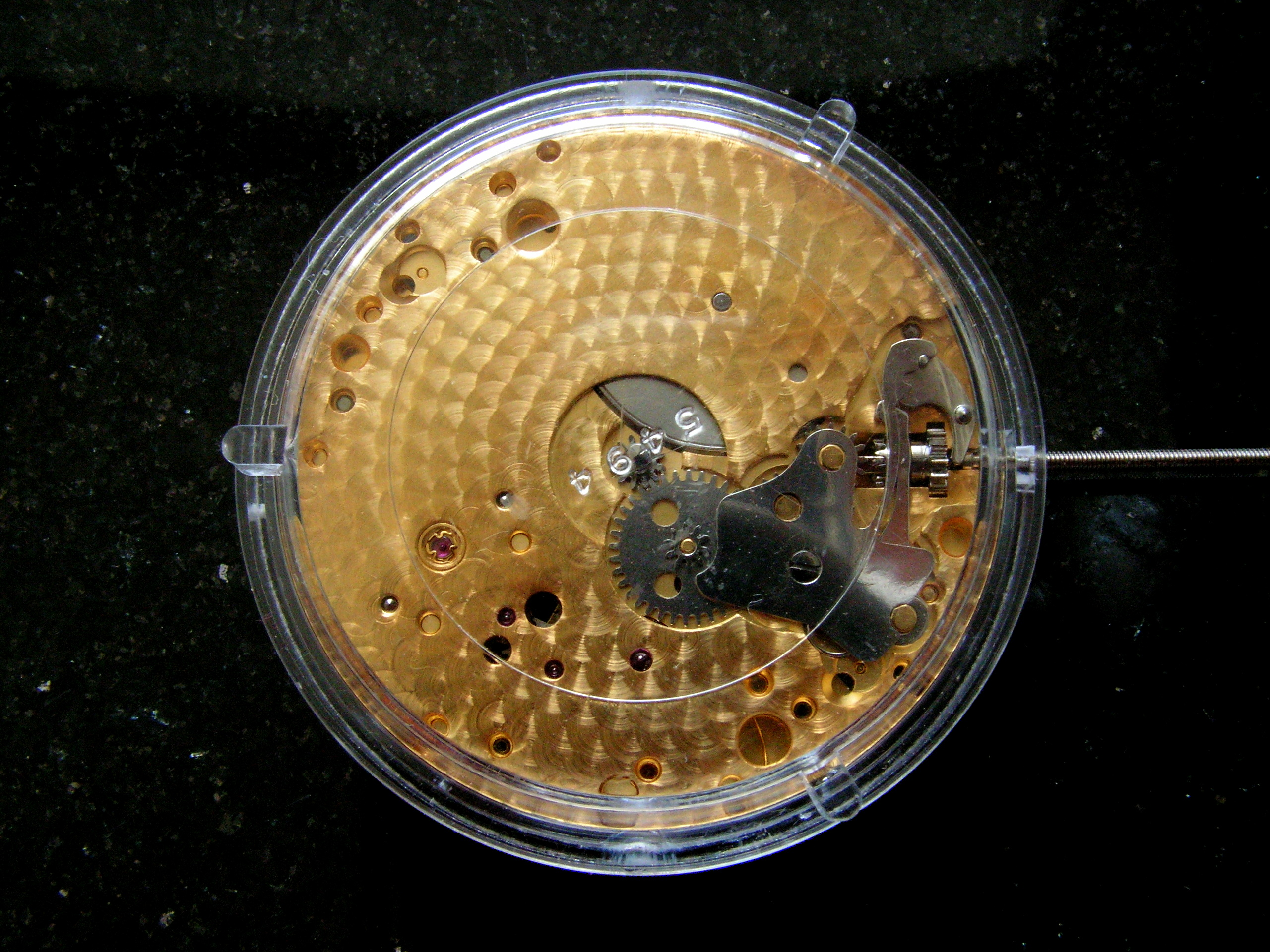 Semi manually applied perlage pattern on wacht movement (on the main plate).